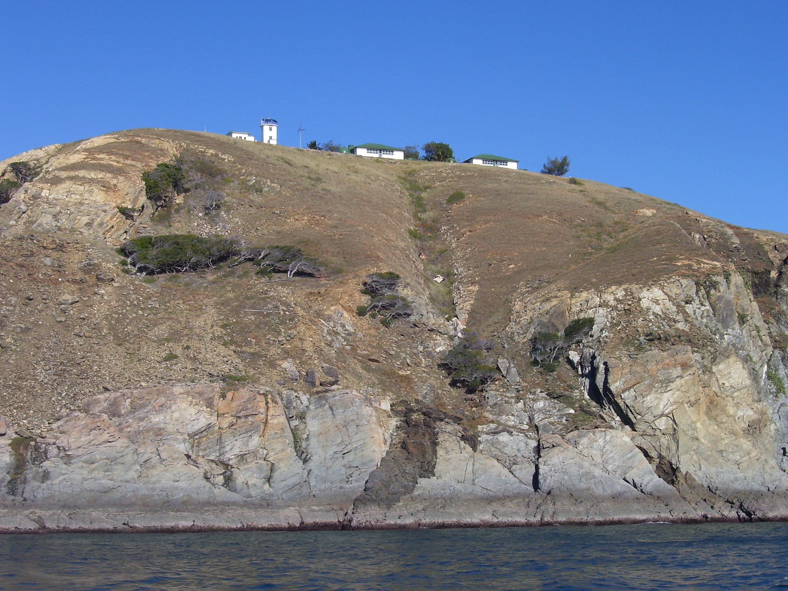 Lighthouse and houses from the water